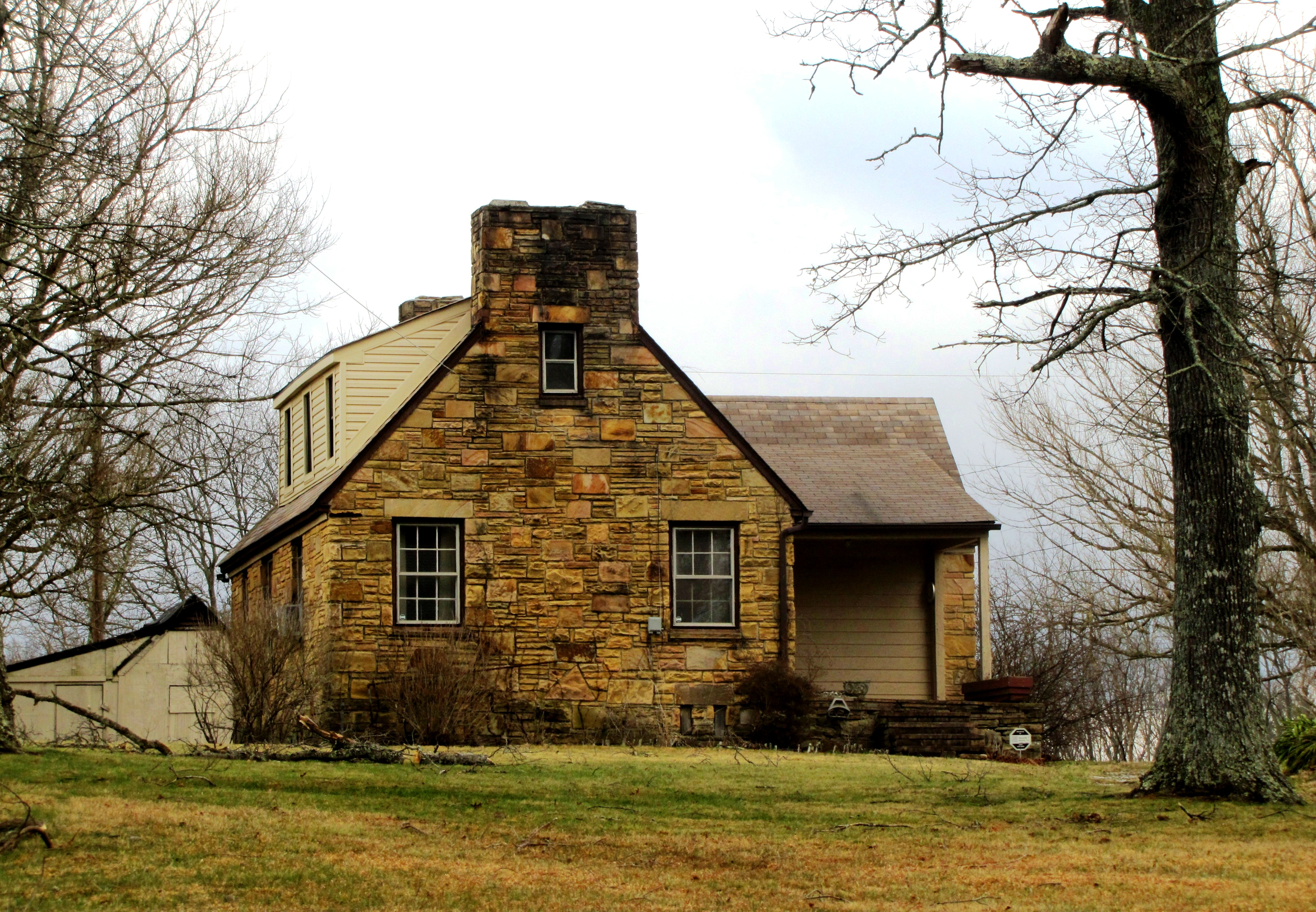 House in the NRHP-listed Cumberland Homesteads Historic District in Crossville, Tennessee, USA.